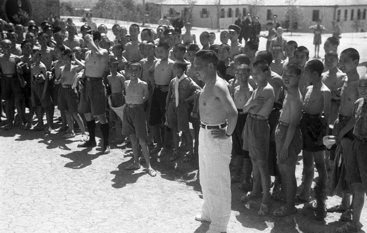 Chiang Ching-kuo in Gannan during the early 1940s. Chiang Ching-kuo was appointed as commissioner of Gannan Prefecture (贛南) between 1939 and 1945.